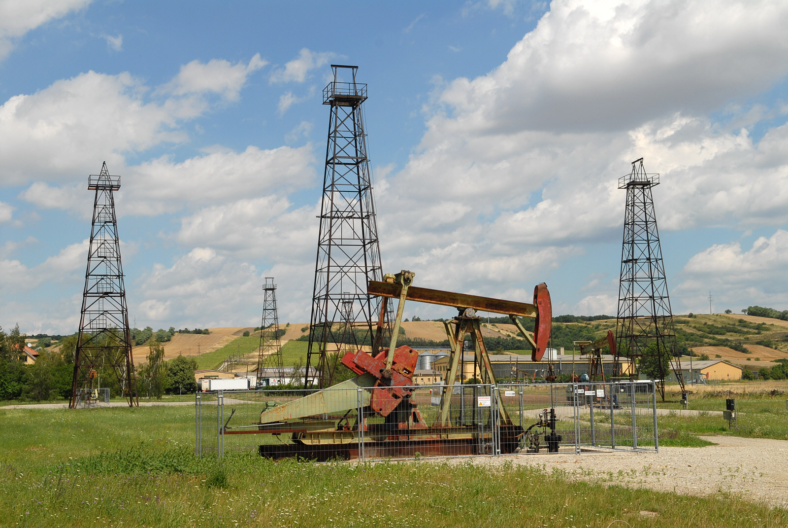 At the former Van Sickle oil field near St. Ulrich/Zaya in Lower Austria